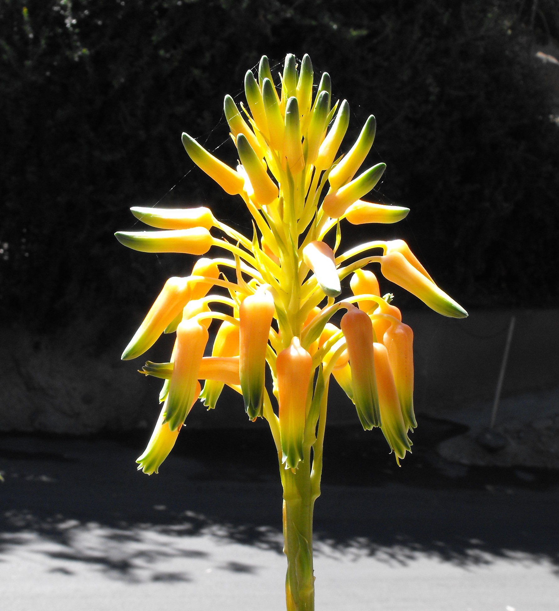 Aloe cooperi at the San Diego Zoo, California, USA. Identified by sign.